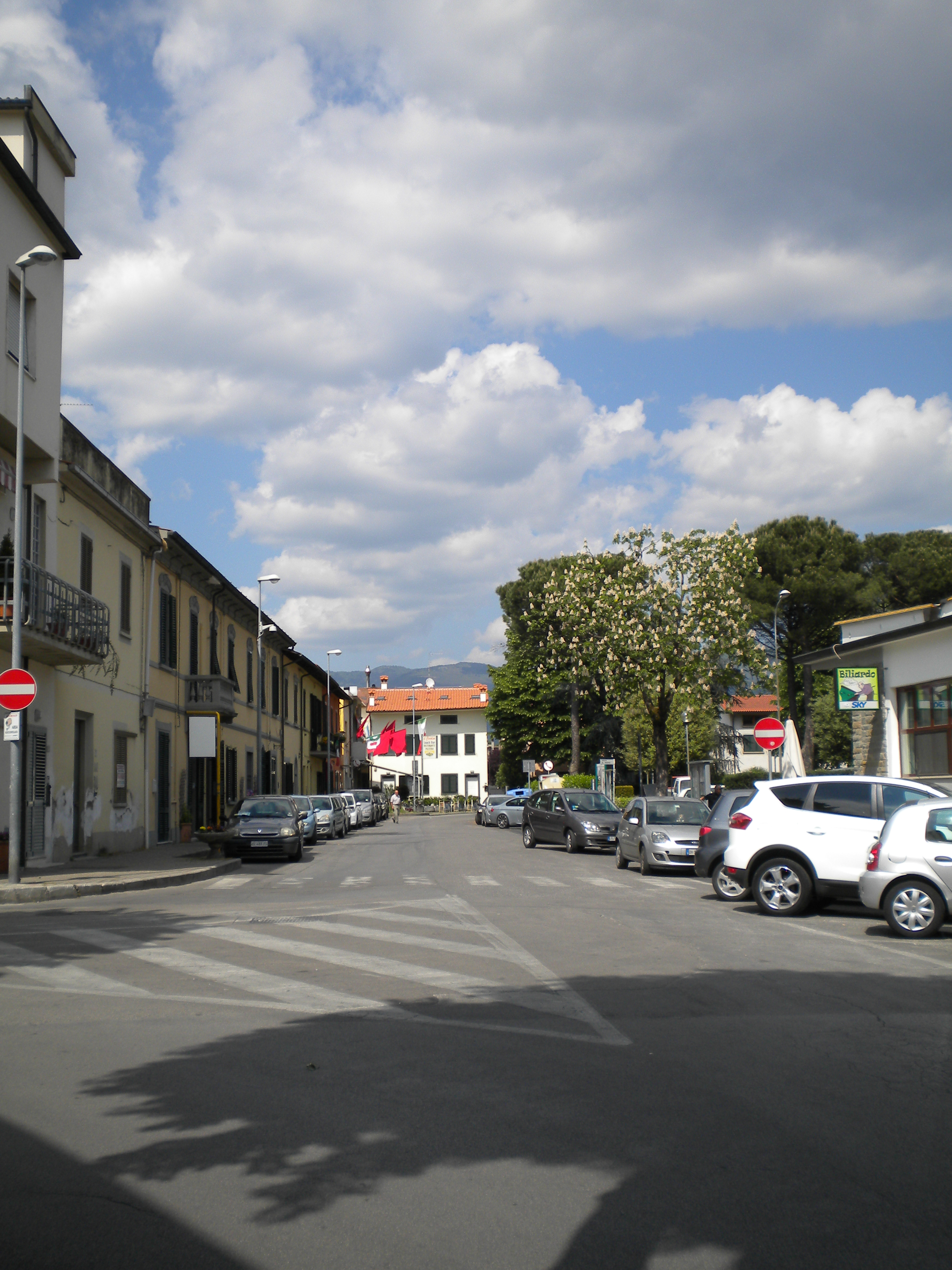 street